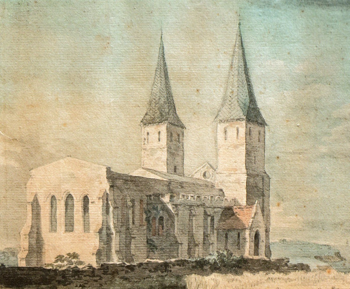 Detail of a watercolour of Reculver Church painted in 1755 by L Sullivan, from a position north-east of the church, between the churchyard wall and the perimeter of the Roman fort.